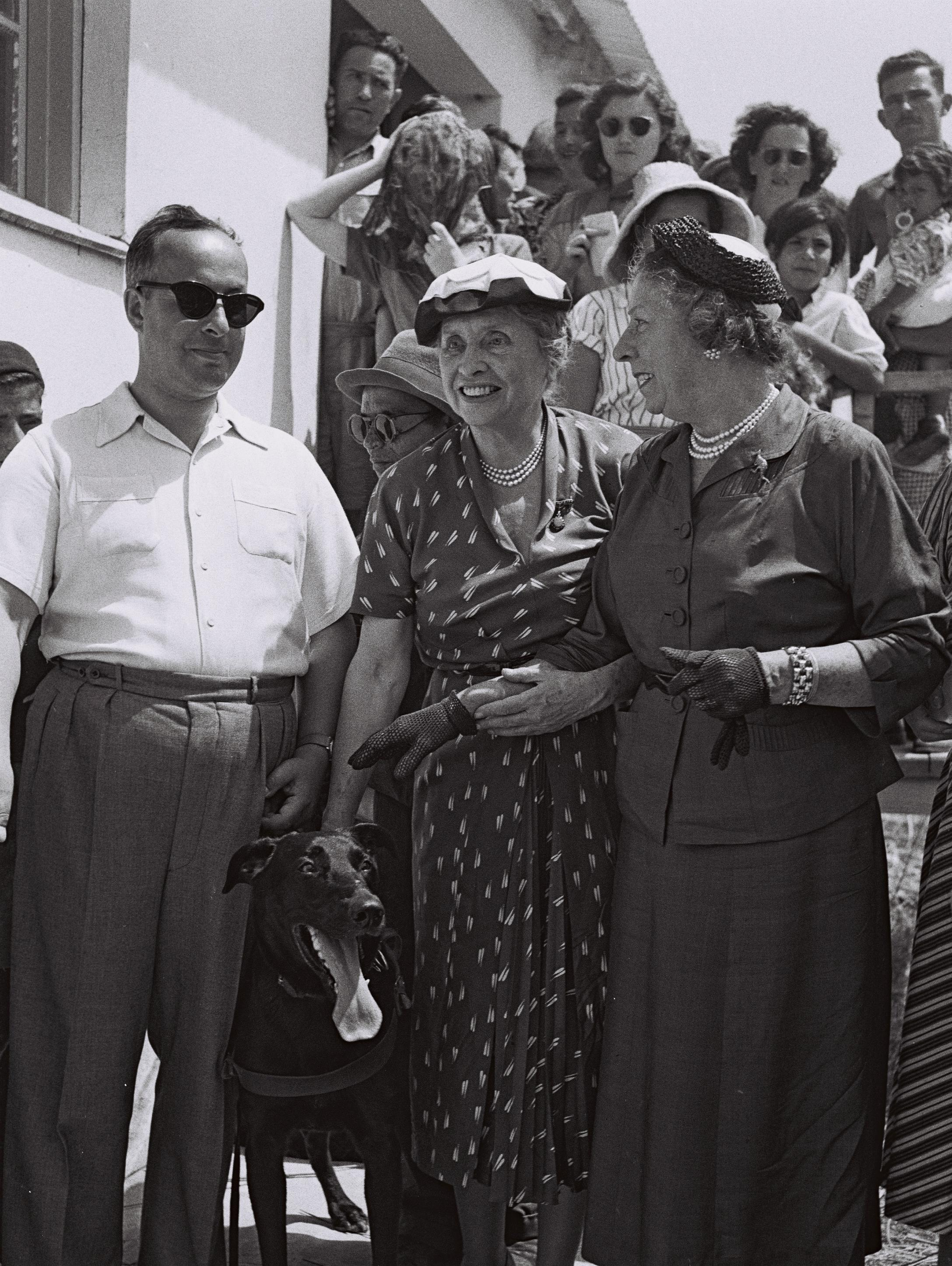 Hellen Keller (in the middle) visits the blind village of Kfar Uriel. To her left stands Dr.Hagel the head of the village, to her right her secretary Mrs. Polly Thompson.